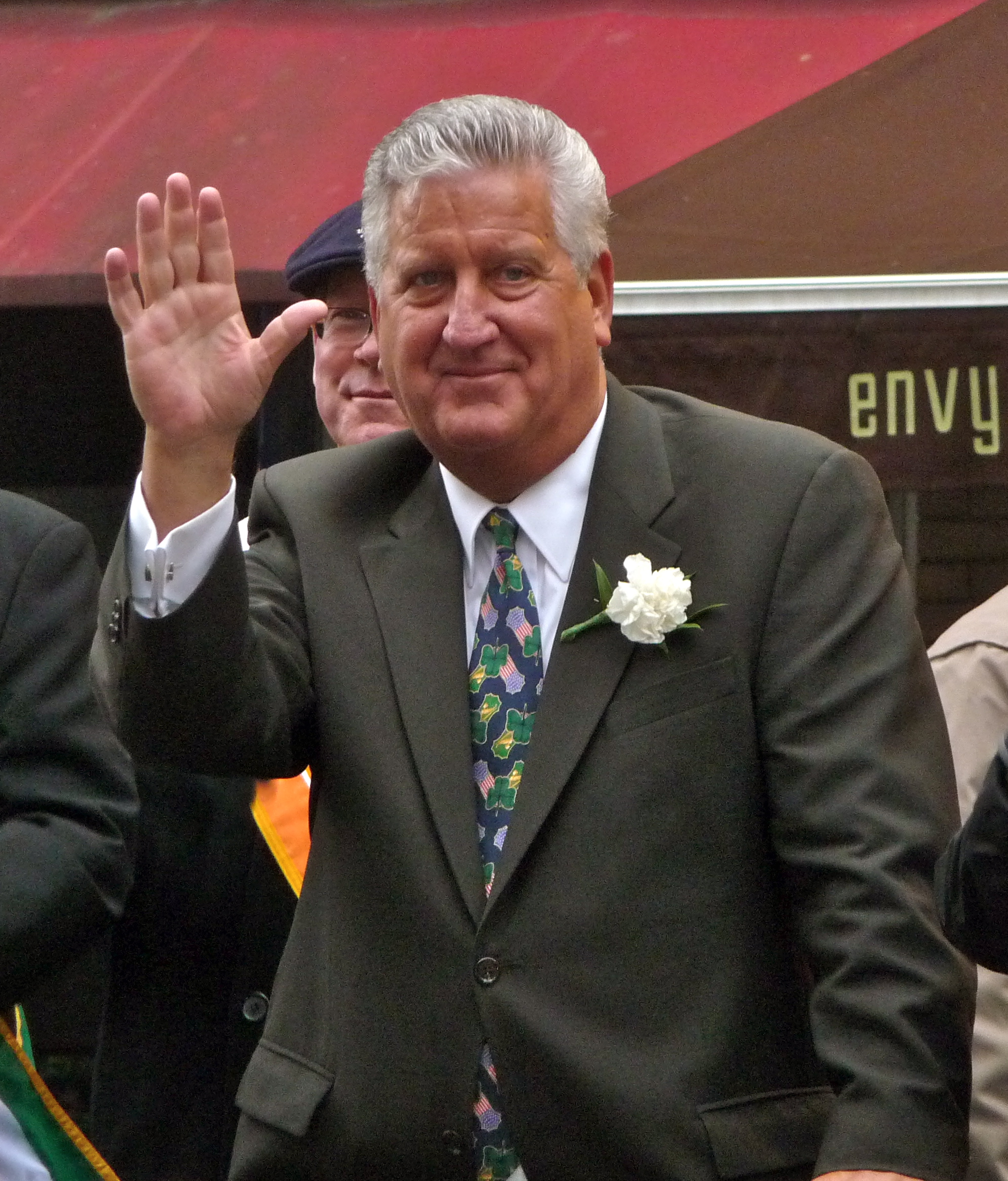 Gerald Jennings (b. July 31, 1948), current and 74th Mayor of Albany, New York, during the 2010 St. Patrick's Day Parade in Albany